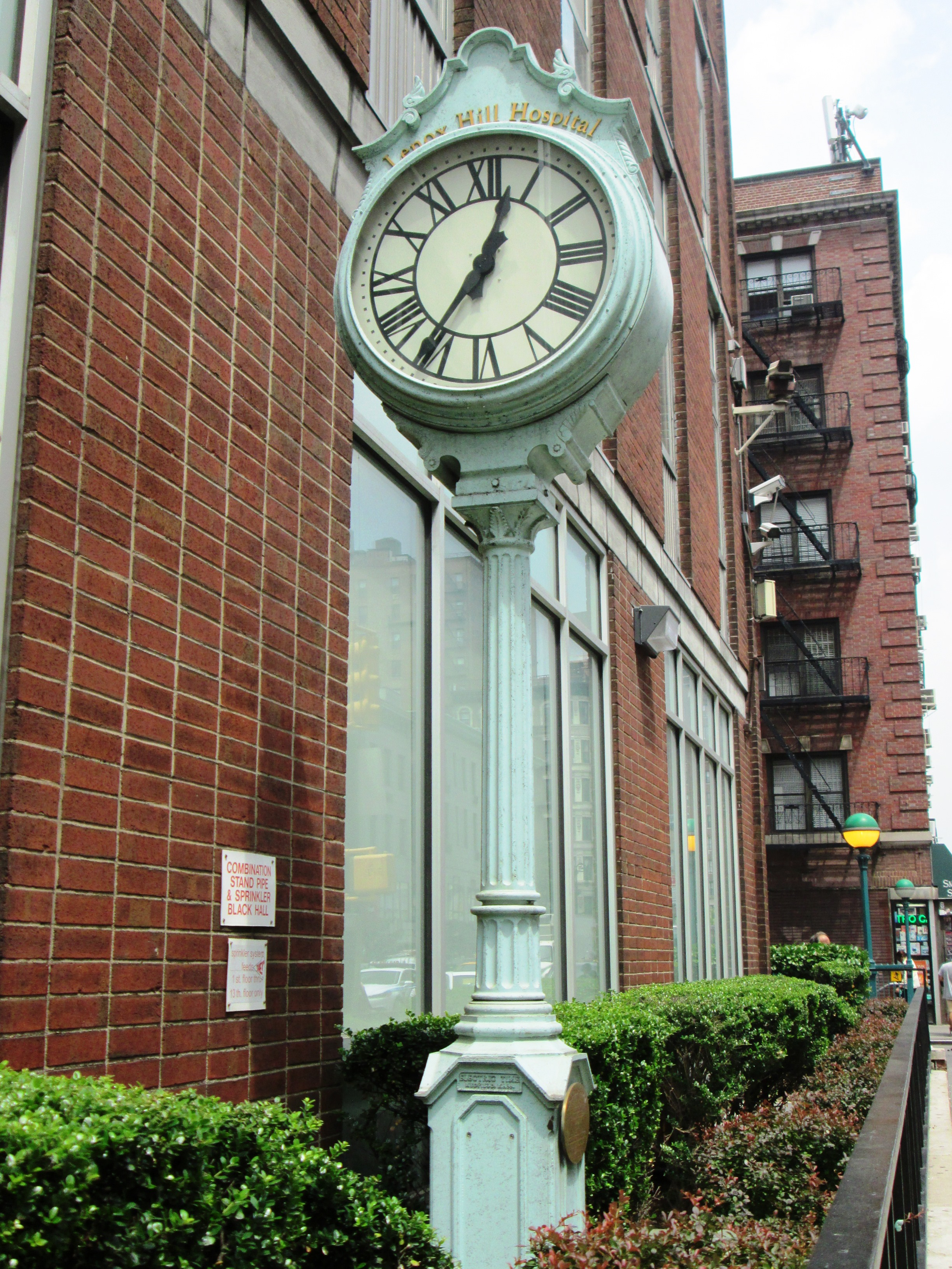 The Lenox Hill Hospital sidewalk clock at 1094 Lexington Avenue between East 75th and 77th Streets in the Lenox Hill neighborhood of the Upper East Side of Manhattan, New York City.